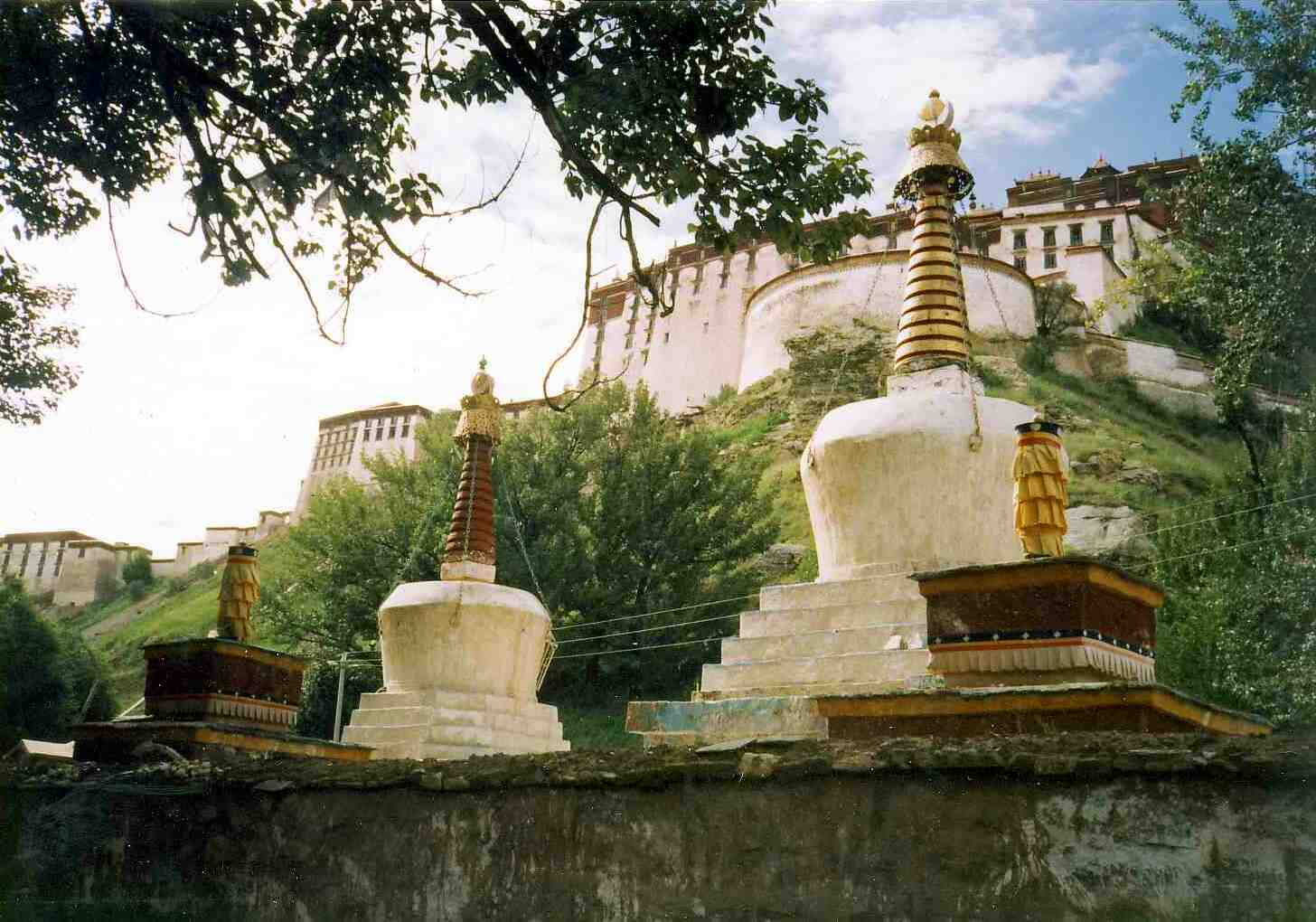 View of Potala from side